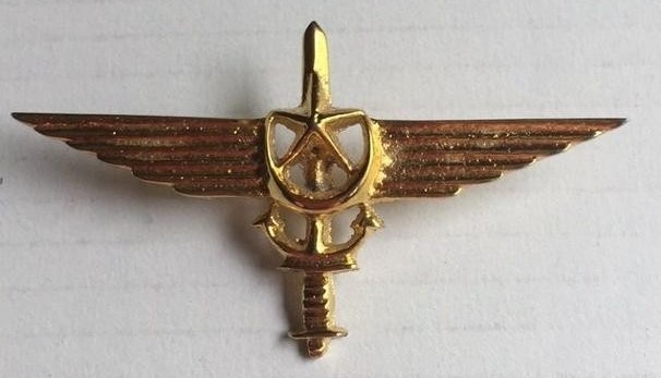 Years ago when I went to Pakistan (sometimes in 2003-04) when things and people were friendly and great. I went to visit the Navy Museum in Karachi where I bought this military badge from the Navy Museum. This is the Air Force's Special Forces team badge. I own the copyrights for this. The pin is very similar to the U.S. Navy SEALs badge.